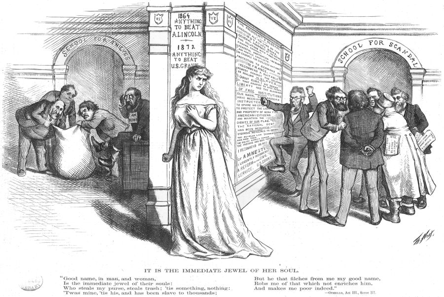 Columbia (female personification of the USA) stands before a wall separating two groups. On the left is Boss Tweed reaching into a bag with three companions standing beside him: an arch behind is labeled "SCHOOL FOR THIEVES". On the right are the Liberal Republicans: Thomas W. Tipton, Carl Schurz, Lyman Trumbull, Horace Greeley, Reuben Fenton and one other: an arch behind is labeled "SCHOOL FOR SCANDAL". Both factions are identified with the McClellan-Vallandigham campaign of 1864: "1864 - Anything to beat A. Lincoln; 1872 - Anything to beat U.S. Grant".